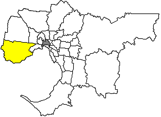 Map of Melbourne, Victoria (Australia), LGA of Wyndham City highlighted